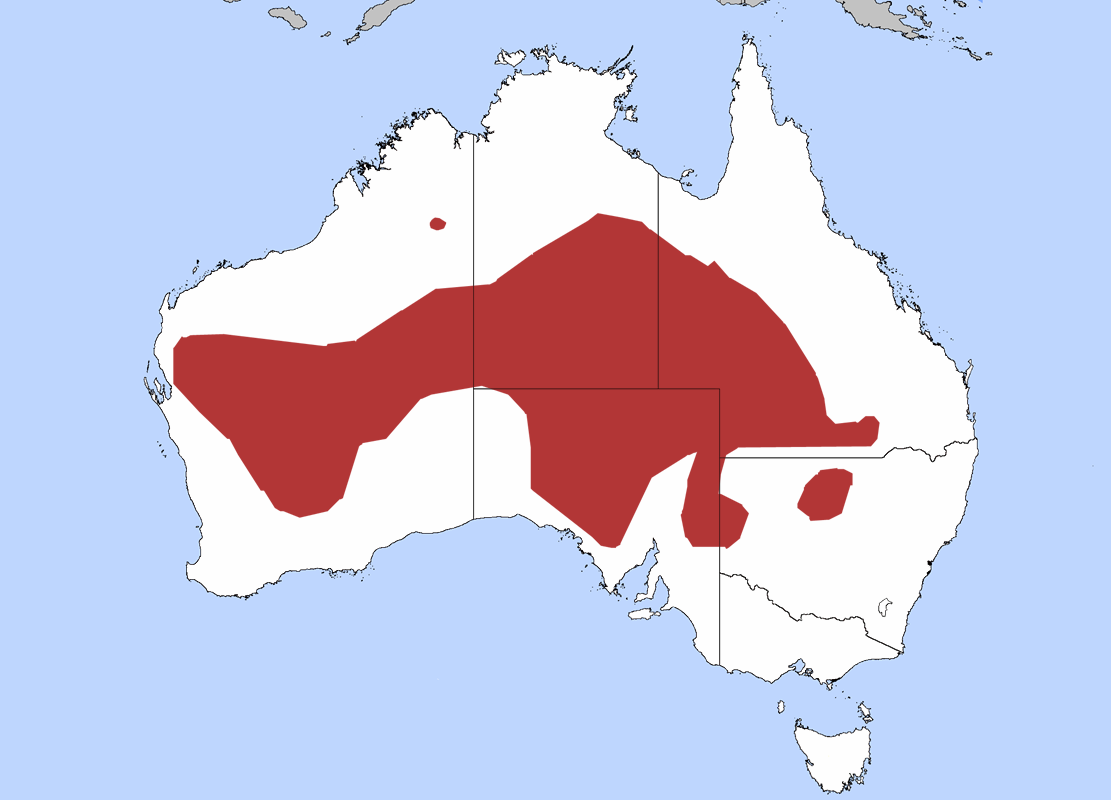 The Kultarr's Distribution.